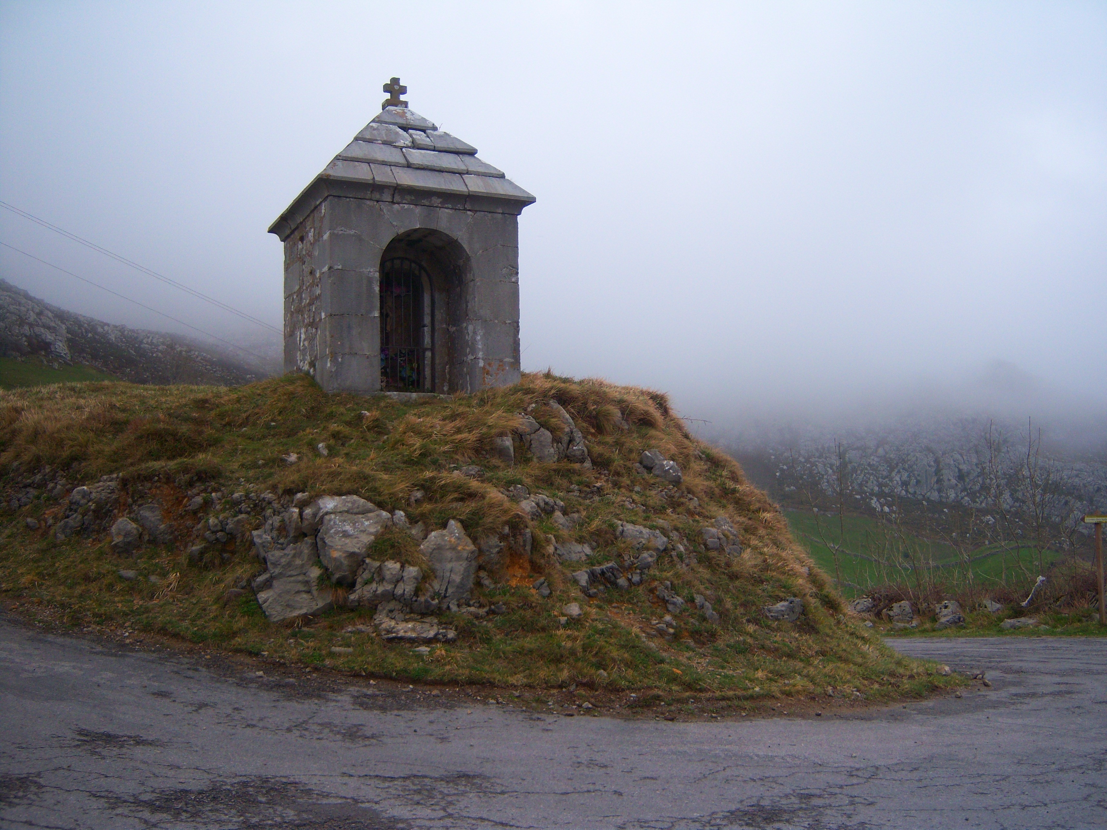 Wayside cross of Solana, in the municipality of Miera (Cantabria, Spain).